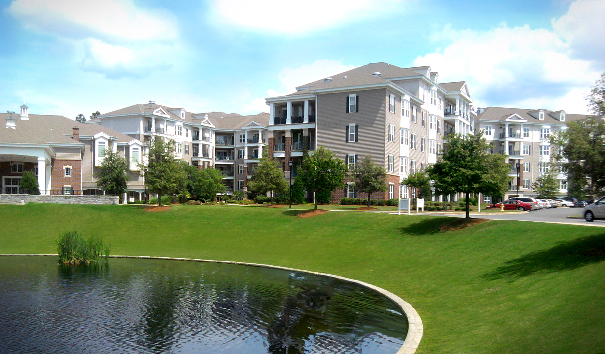 Spring Harbor at Green Island Continuing Care Retirement Community, Columbus Georgia. Columbus Regional Healthcare System.